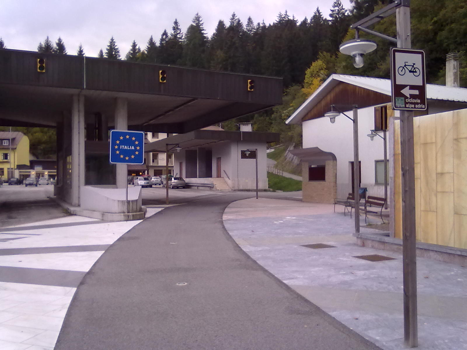 Start of Ciclovia Alpe Adria at the italian-austrian border